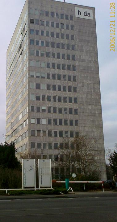 author : vita